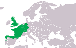 Distribution of Triturus helveticus, based on Nöllert/Nöllert: "Die Amphibien Europas"